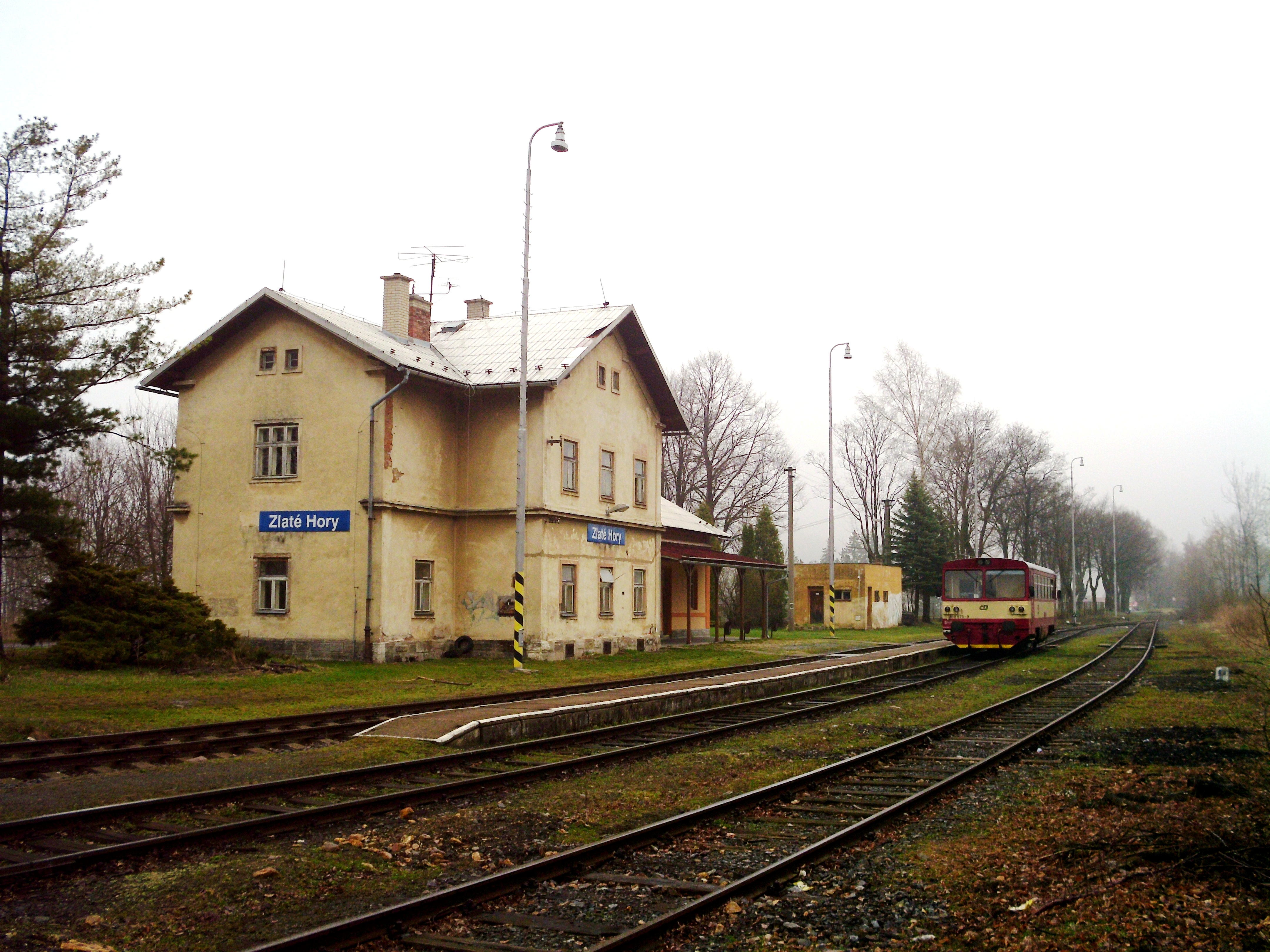 Train station in Zlaté Hory, Czech Republic